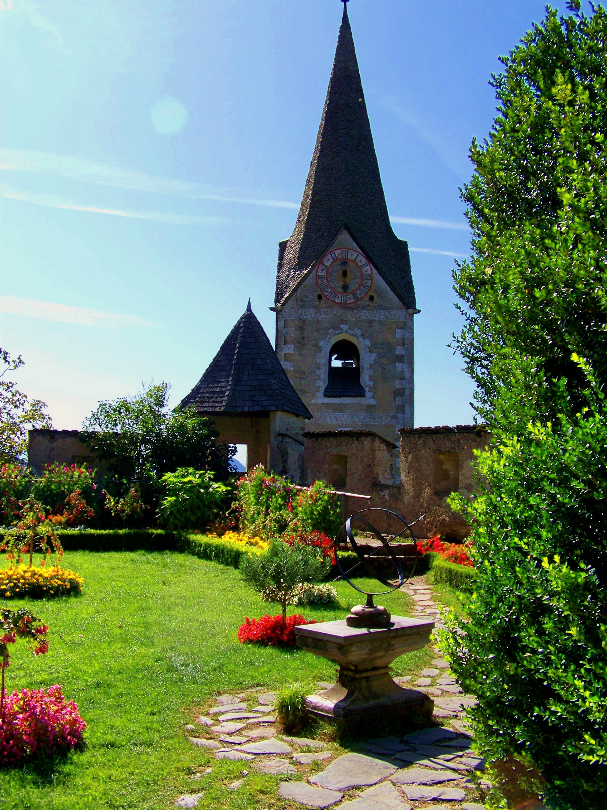 Garden of Hochosterwitz Castle, Austria